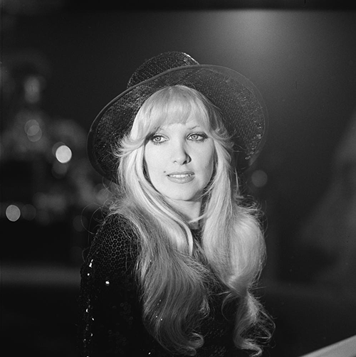 Lynsey De Paul in AVRO's TopPop (Dutch television show) in 1974